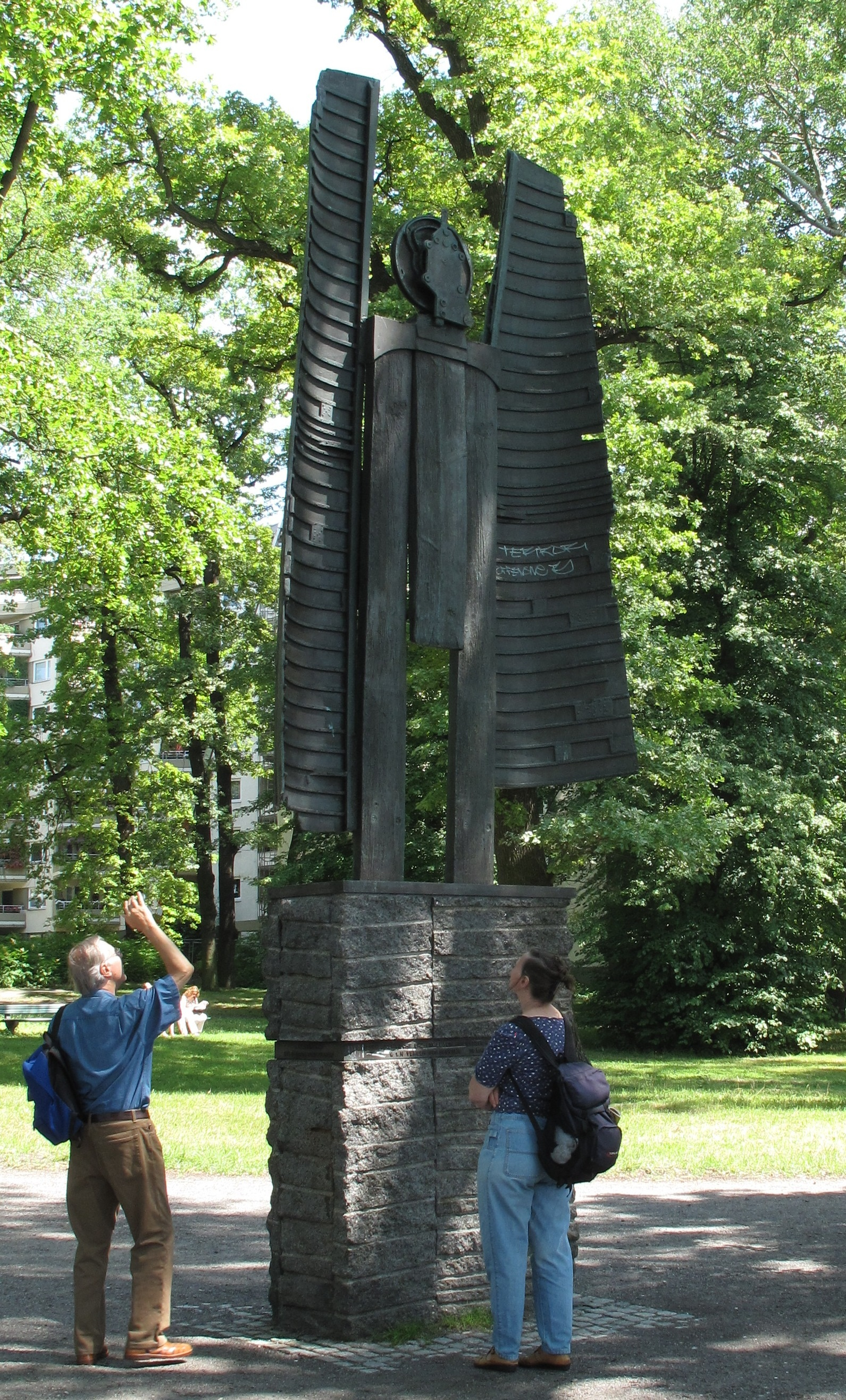 The „Der archaische Erzengel von Heiligensee“. Hommage à Hannah Höch) in Berlin-Tegel, Germany. The sculpture was created by Siegfried Kühl and inaugurated on November 1, 1989 – the 100th anniversary of Hannah Höch. It is situated at the Großer Malchsee, the northernmost bay of the Lake Tegel.